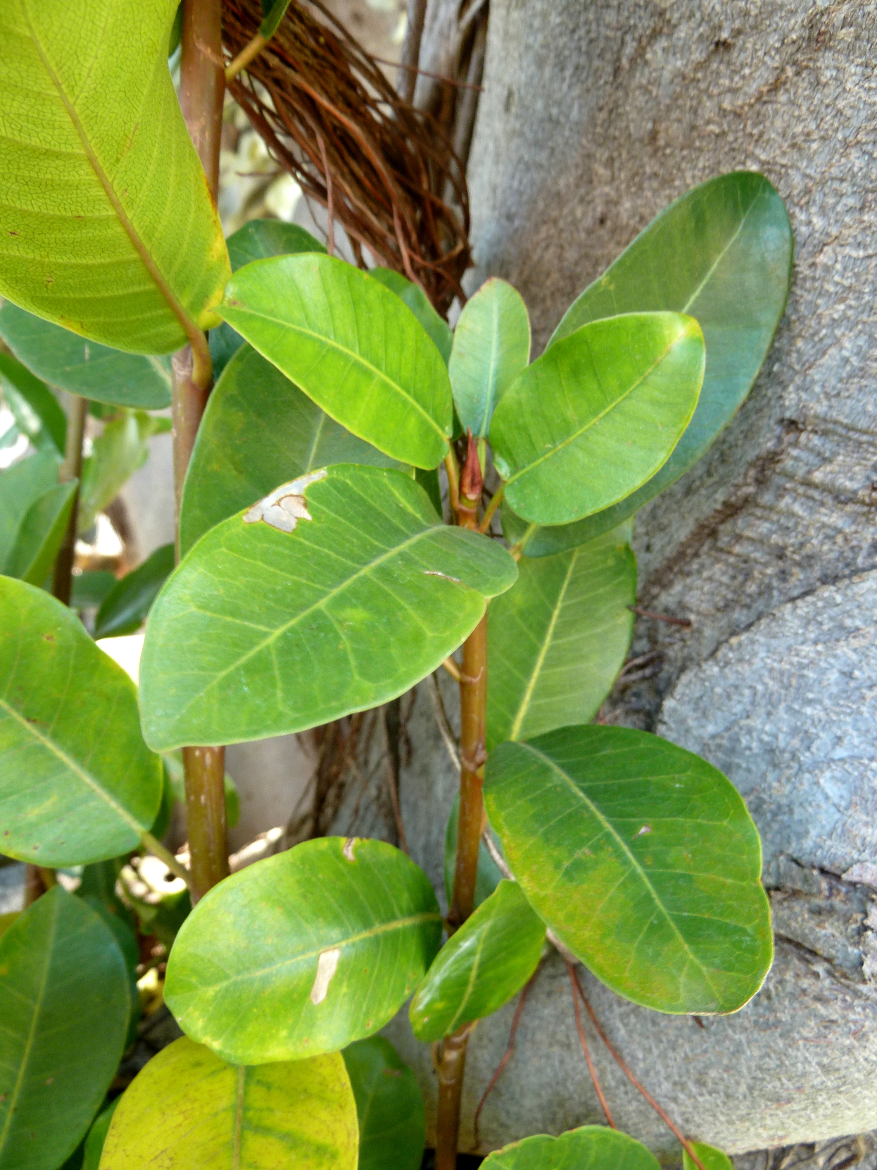 Shoot with leaves of a Common wild fig, Waterberg, South Africa